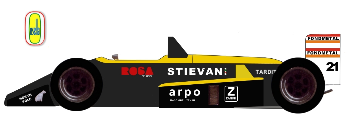 Osella FA1L (1988)